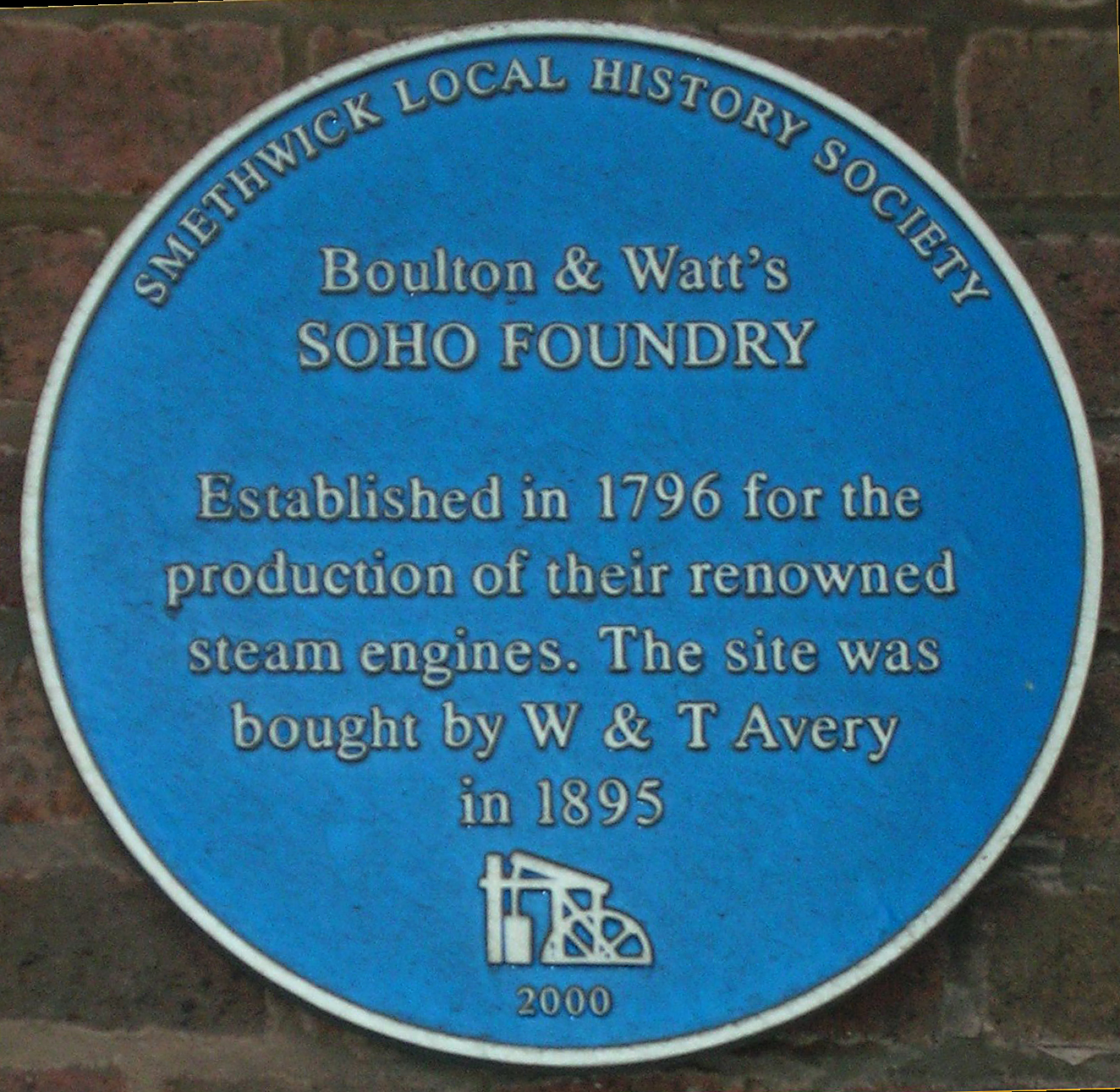 Blue plaque at Soho Foundry, Foundry Lane, Smethwick, West Midlands, England. Photographed by me 22 April 2007. Oosoom